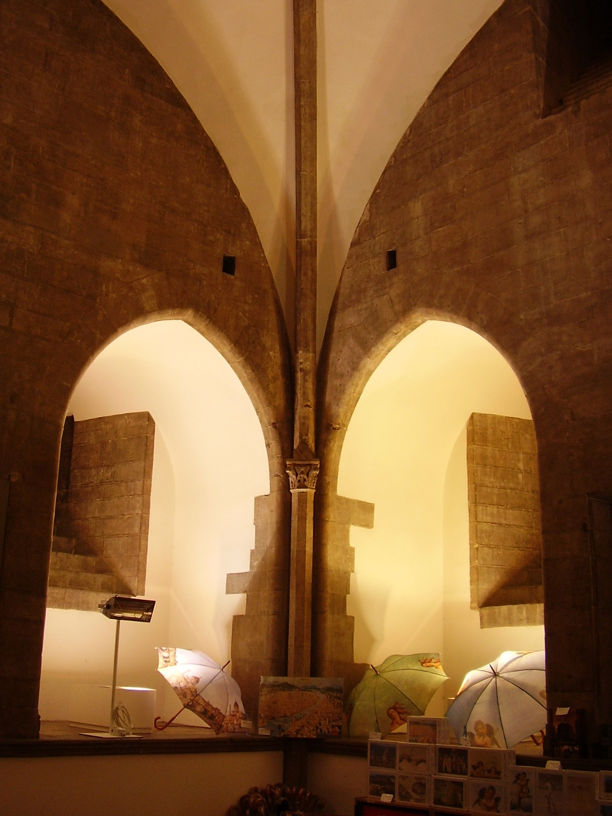 Author Michele Perillo (Mikils 17:00, 30 January 2006 (UTC)) taken 21st January 2006